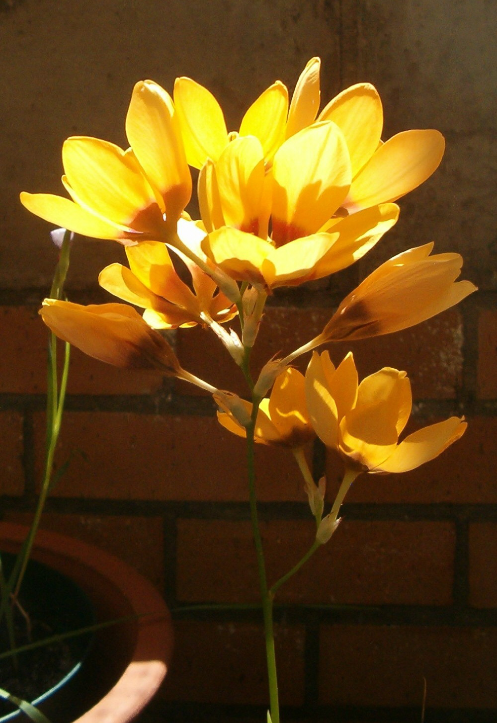 At Kirstenbosch National Botanical Gardens Species Ixia curta